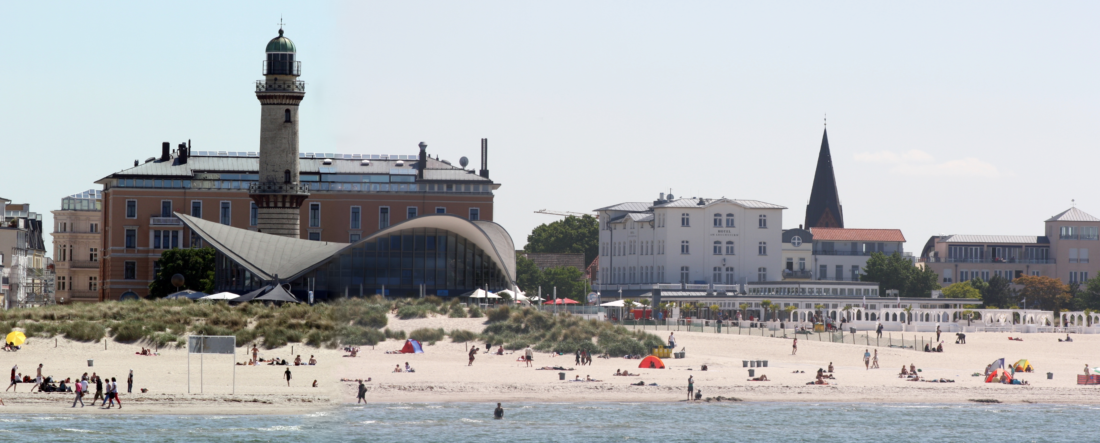 Composite image showing a panorama of Warnemunde Beach (featuring the lighthouse and Teepot)